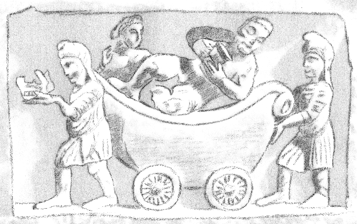 Indo-Scythians pushing the Greek god Dyonisos with Ariadne in a charriot. Gandhara. Photographic reference: here.